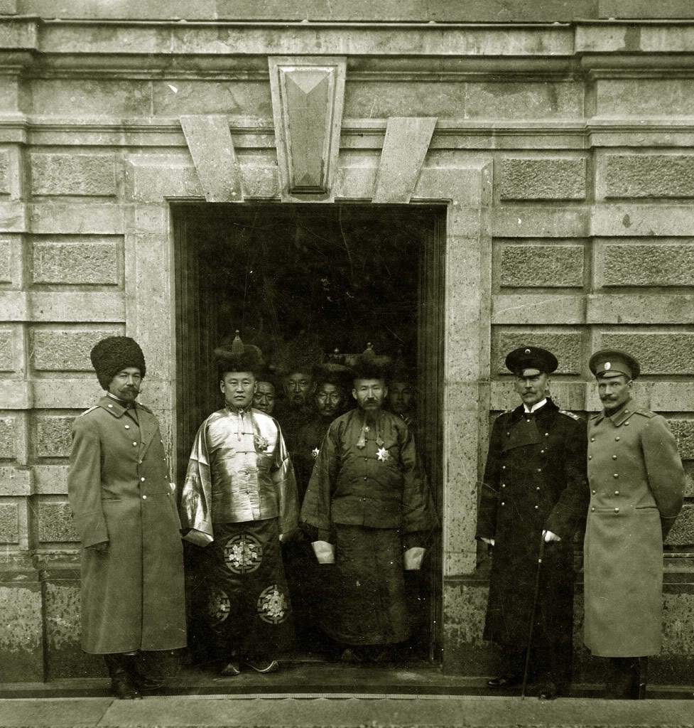 Prime Minister Tögs-Ochiryn Namnansüren in a delegation to St. Petersburg to guard Mongolian interests during Kyakhta treaty conference.